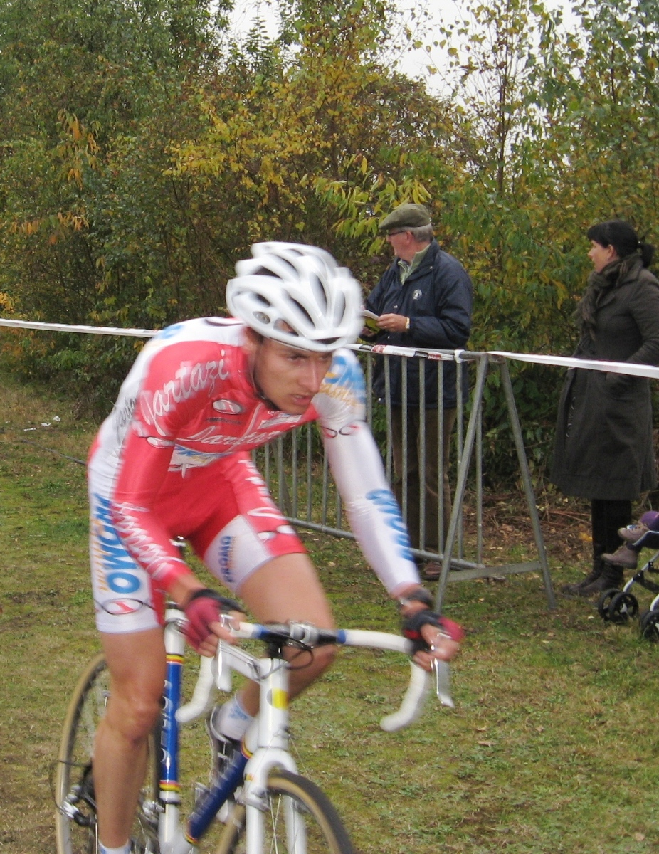 Jan Soetens in action during the cyclo-cross race in Zonhoven, Limburg, Belgium